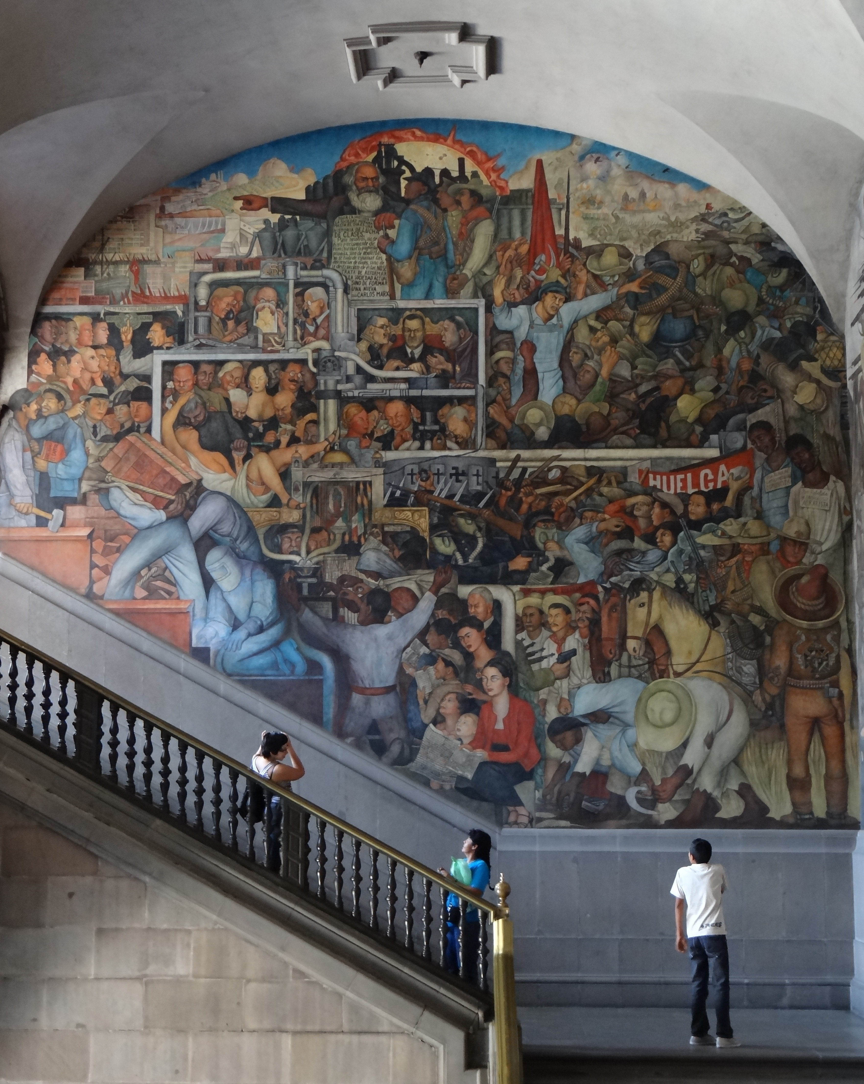 Left panel of the "History of Mexico" mural by Diego Rivera on stairway of National Palace in Mexico City.